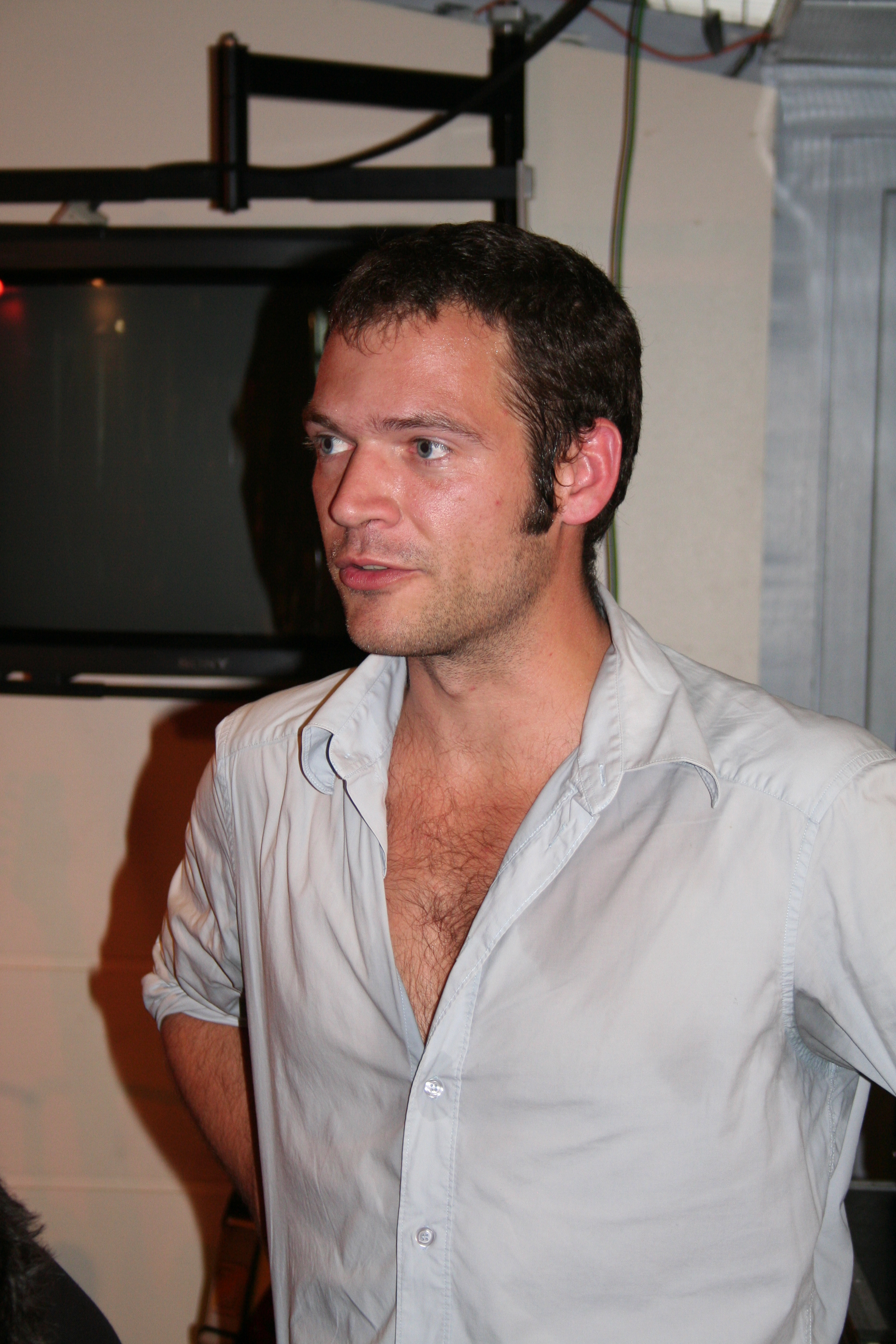 Christophe Bastien during the show-case with Debout sur le Zinc at Fnac des Halles (Paris, France).